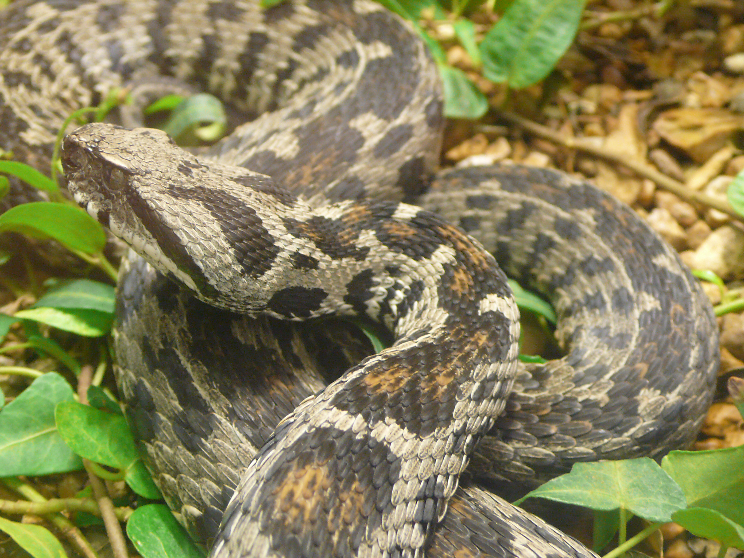 Ocellated Mountain Viper (Vipera wagneri)